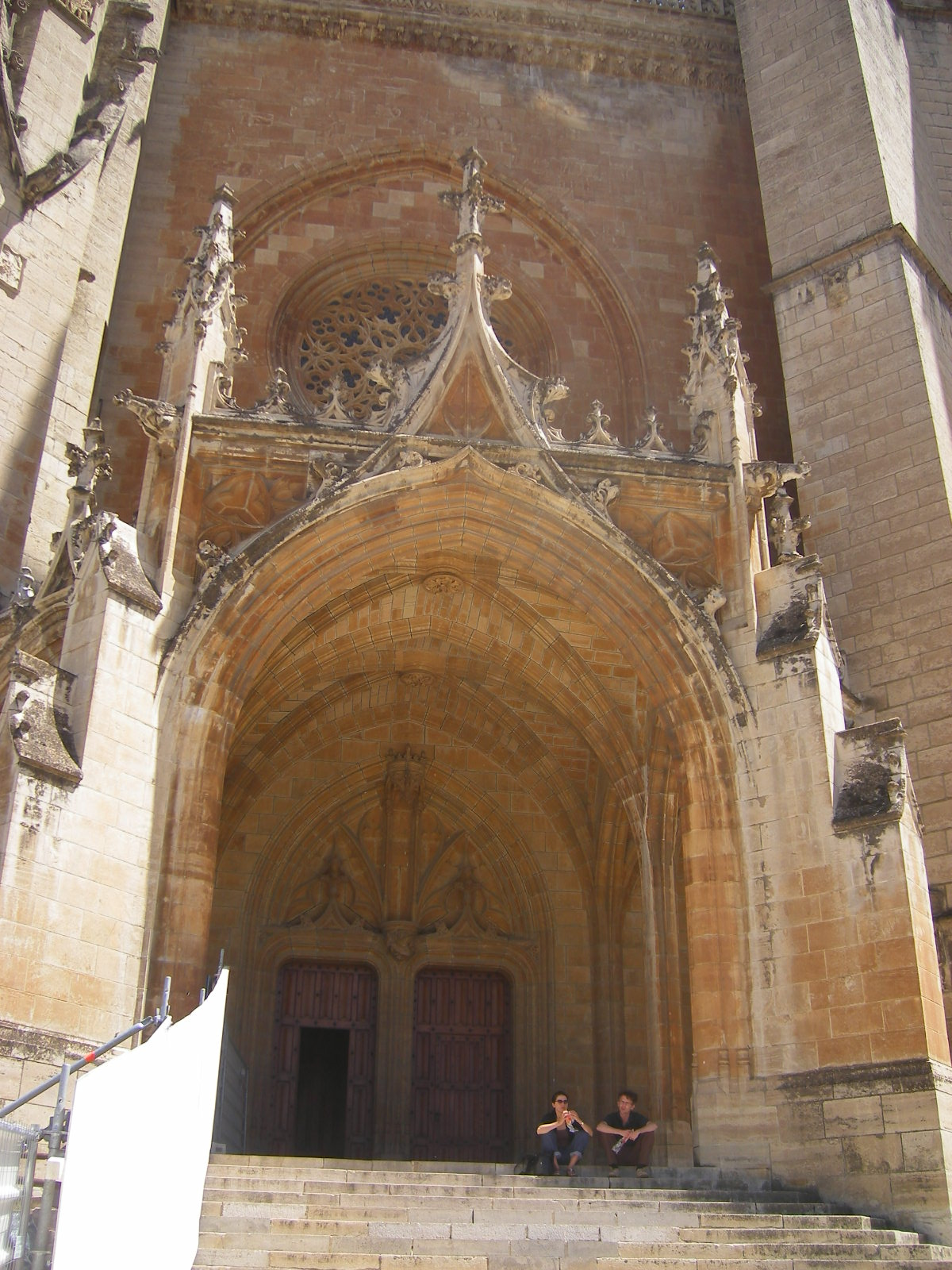 Mende, Cathedral